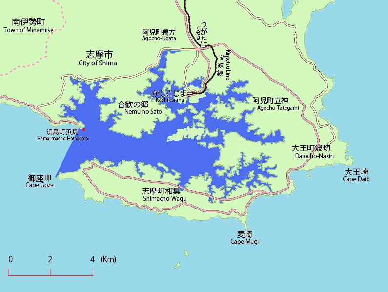 This is the map of Yadori island in Shima,Mie,Japan. Red is Yadori island, Bule is Ago Bay, Aqua is Philippine Sea, Pink is Japan Route, Yellow is Mie prefectural road.